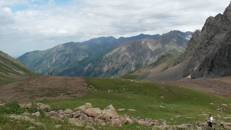 Picture taken by myself, Shymbulak in summer